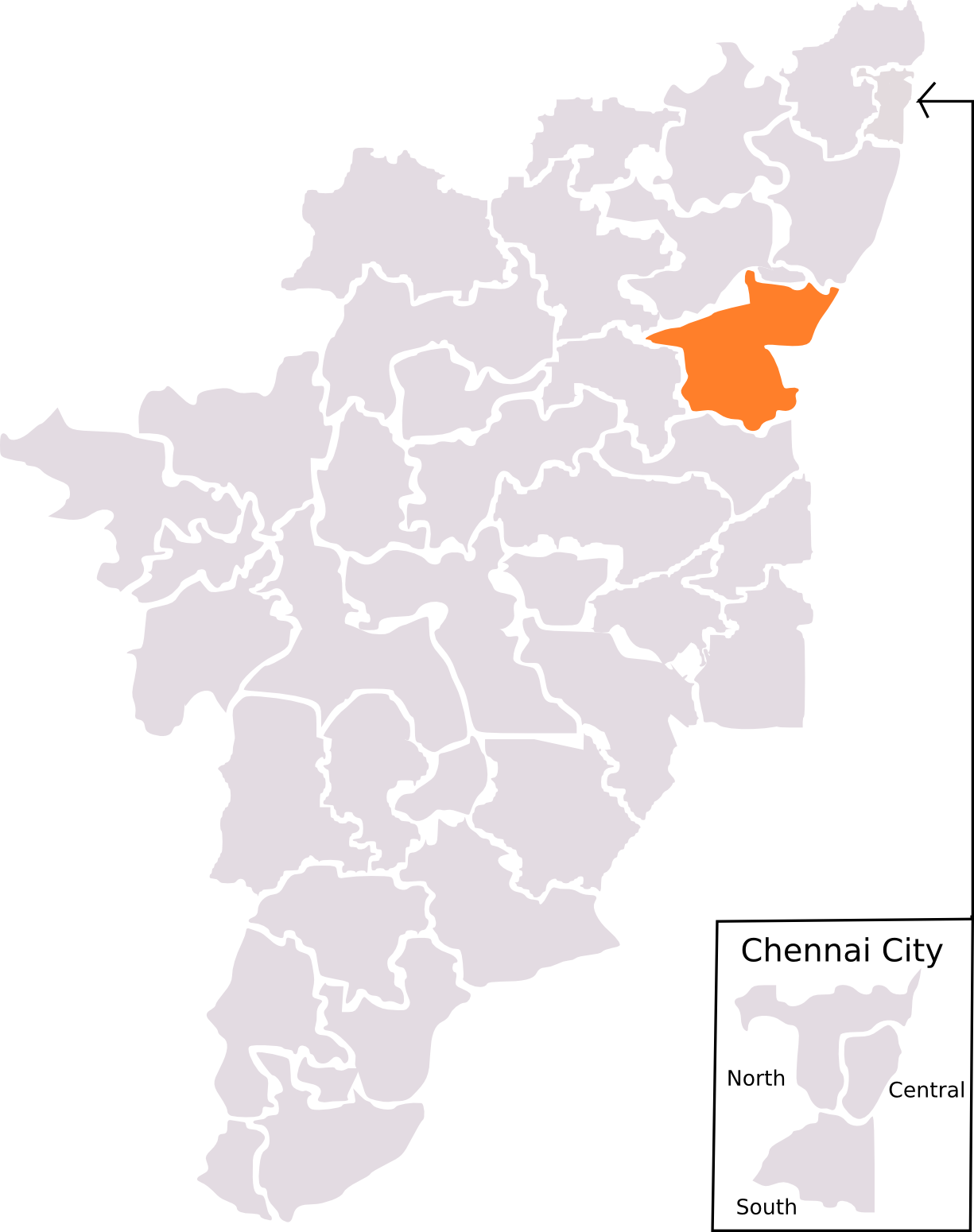 Lok Sabha Election map for Tamil Nadu that illustrates constituencies put in place by 1971 delimitation that was replaced in 2008. Map is based on ECI drawn map.